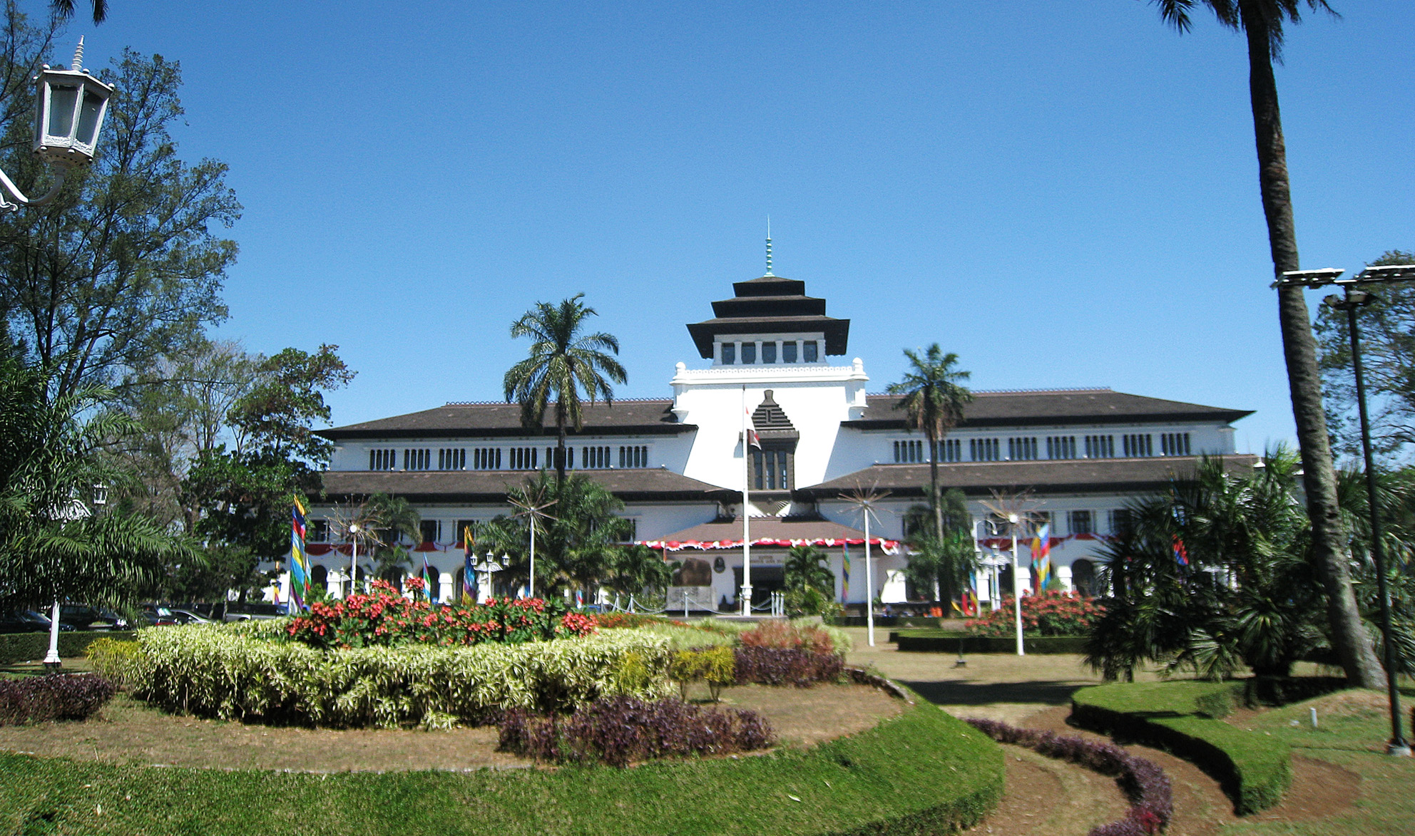 Gedung Sate Bandung, West Java Governor office.